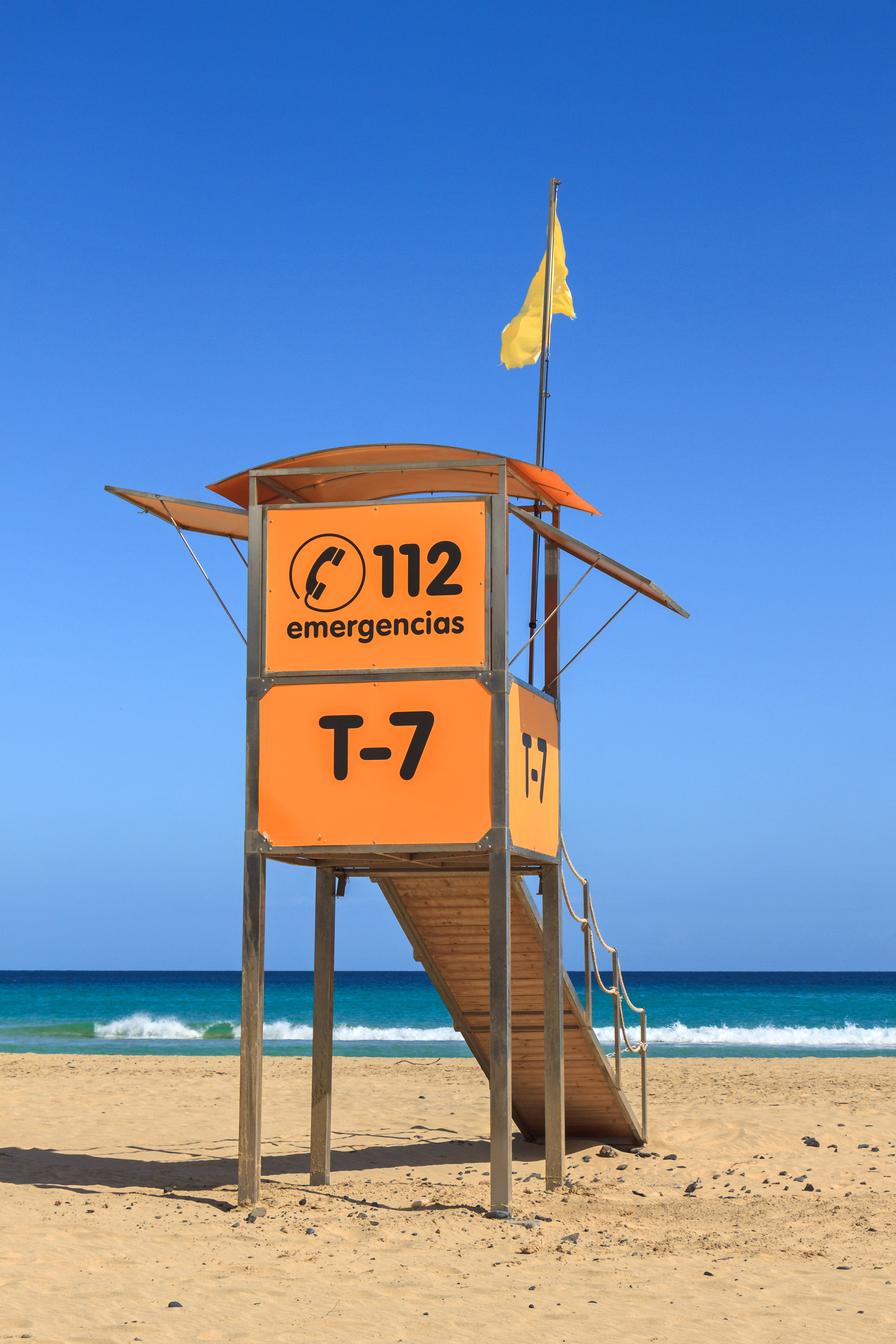 Lifeguard tower at the Playa del Matorral, Morro Jable, Canary Islands, Spain.